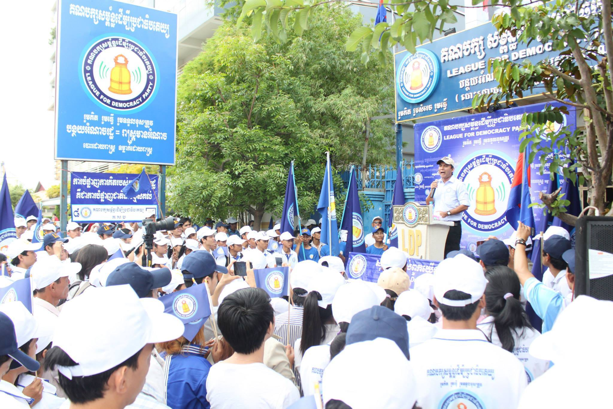 Khem Veasna-LDP